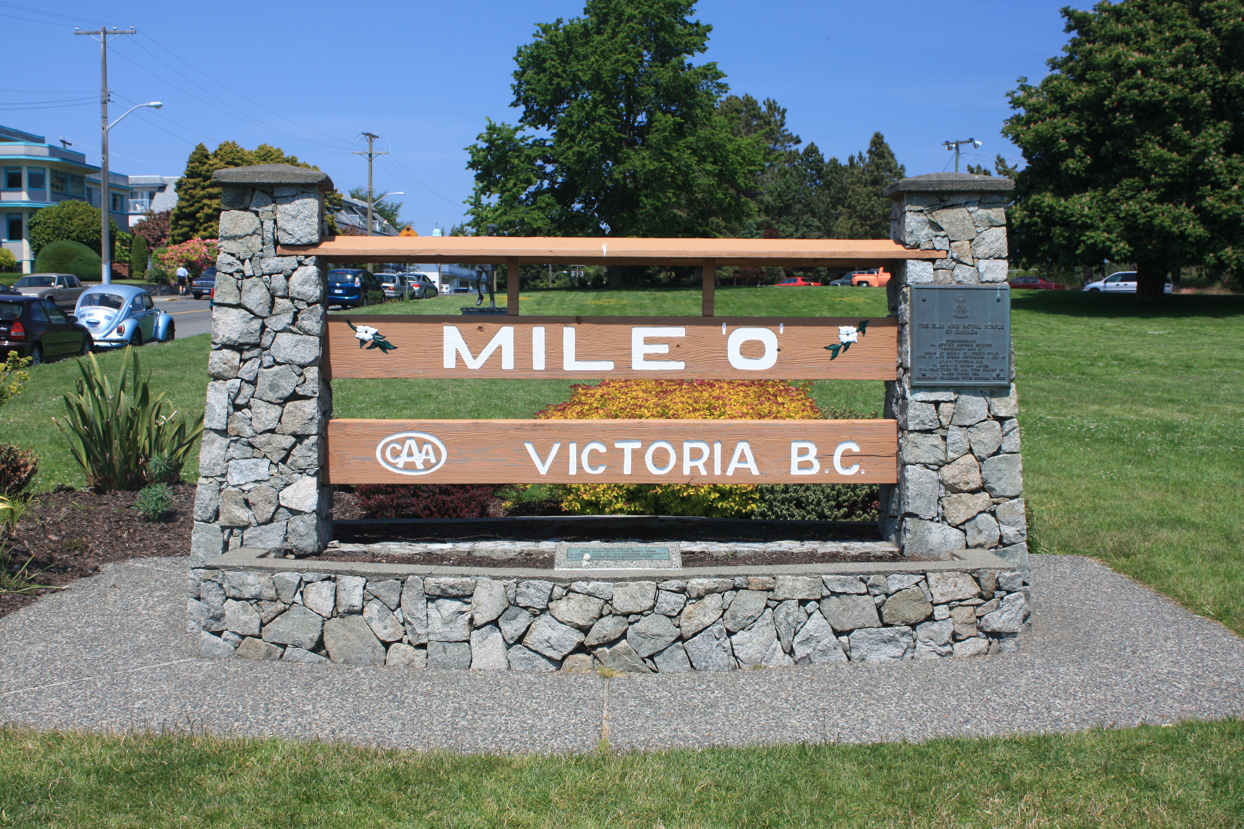 The beginning of the Trans-Canada Highway (Hwy. 1) in Victoria, B.C.